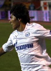 Kim Dong-Jin against Luch